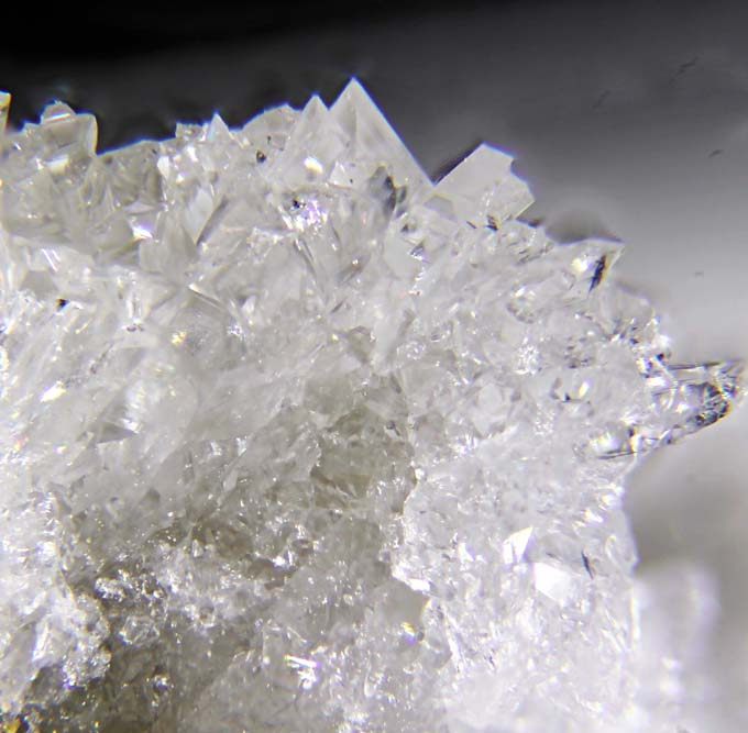 Outstanding colorless crystals of the rare mineral amicite from the type locality (Höwenegg Quarry, Hegau, Baden-Württemberg, Germany).